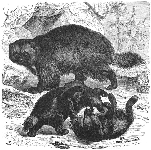 Veelvraat (Gulo borealis). Currently: Gulo gulo